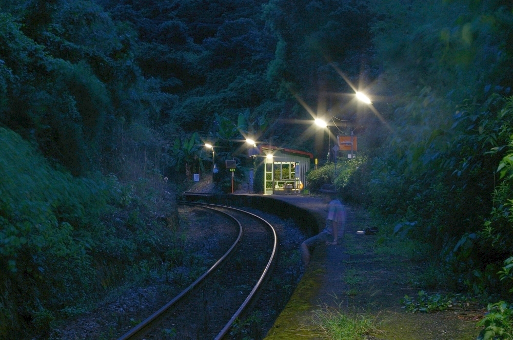 Akase Station on the JR-Kyushu Misumi-Line A moment around 18:00, taken in fairly dark conditions, mostly deserted, at the time the train safety check is satisfactorily completed. The camera was set up on a tripod in order to set up the composition. Exposure time (how long the shutter was open) was set at 20 seconds. While the photo was being taken, someone came and sat down on the platform about 8 seconds into the shot. Their body was in the shot for about 12 seconds because they waited until they heard the shutter sound to move. With a "Click" the photo was taken and the tripod composition was completed. The photo was retaken four times. ※ Caution: Do not copy this person's actions (sitting where they are sitting) as it is dangerous.